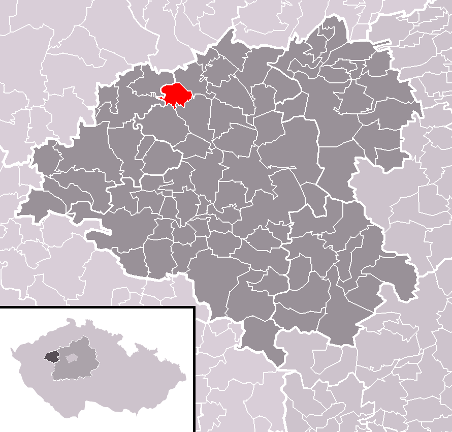 Location of Hořesedly municipality within Rakovník District and (identical) administrative area of Rakovník as a Municipality with Extended Competence.